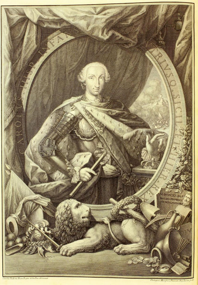 King Charles VII of Naples (Charles III of Spain) by Camillo Paderni. Part of the Italian book, The ancient paintings of Herculaneum and outlines engraved with some explanation